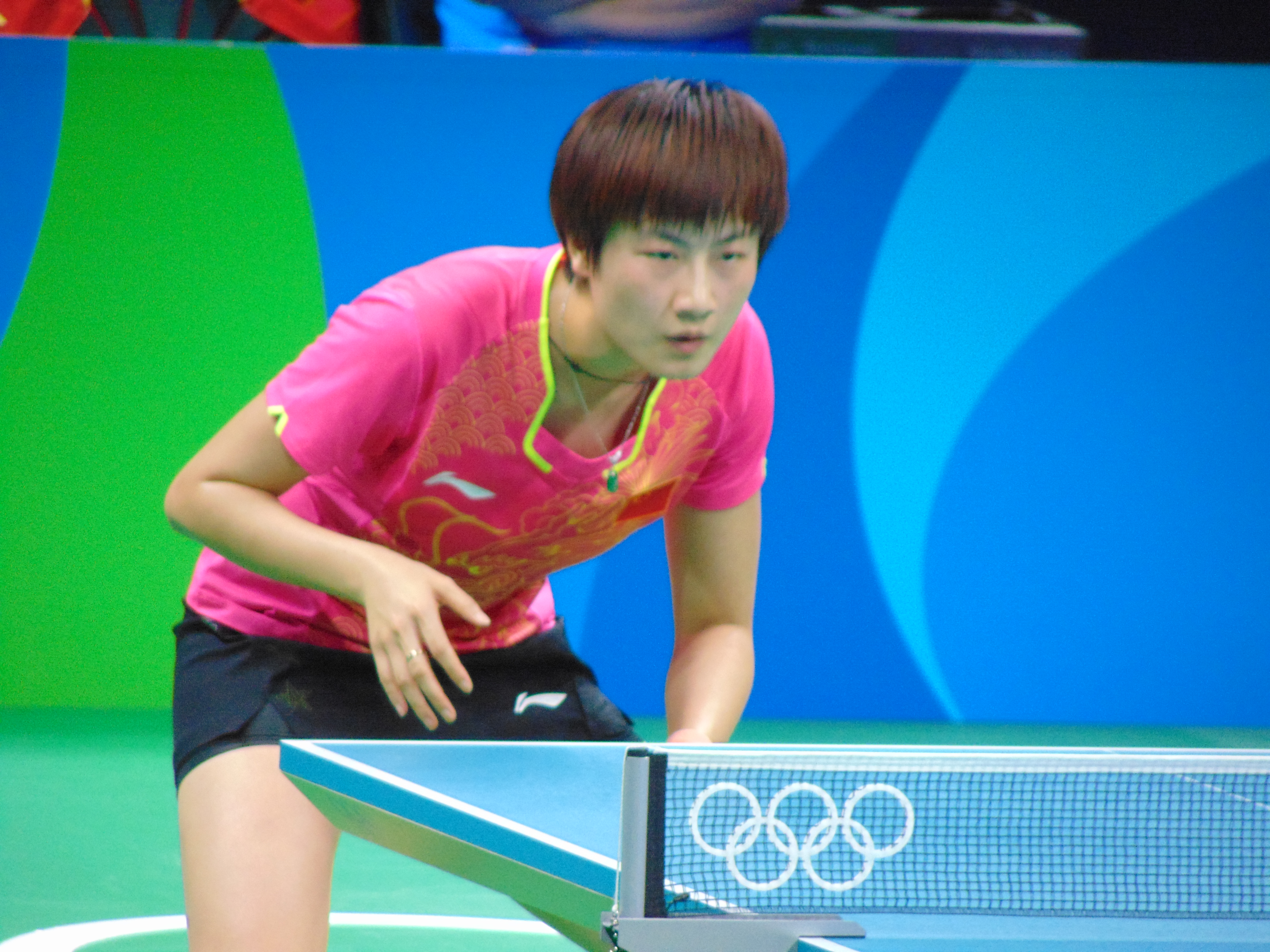 Rio 2016 - Women's table tennis quarter finals